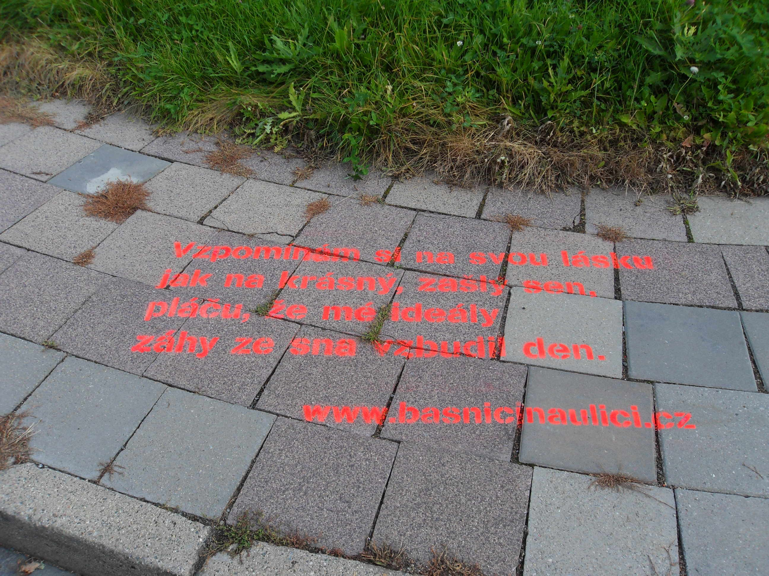 Básníci na ulici (Poets on the street) project - verses by Czech poet Jaroslav Tichý, Brno, Czech Republic